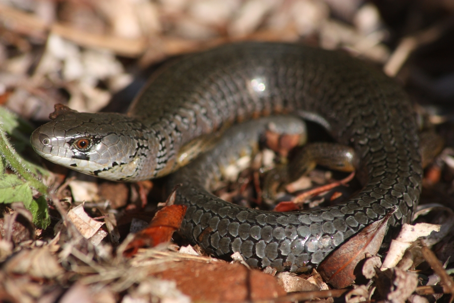 A she-oak skink in a garden in Bicheno, Tasmania